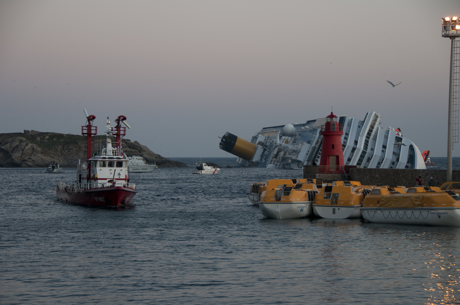 Collision of Costa Concordia - The lookout of the fire department reenters the port of Giglio Island.